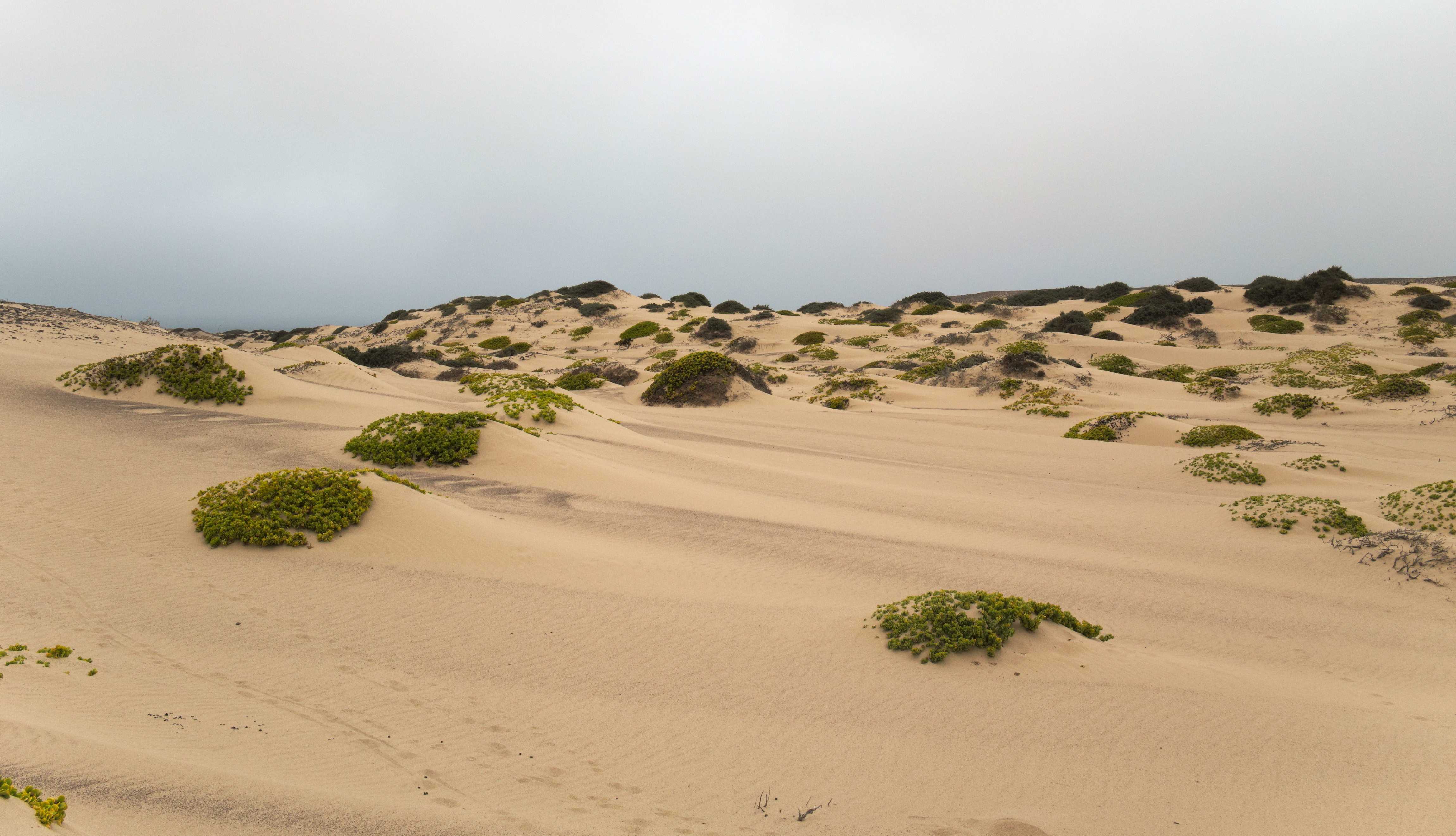 Sand dunes and some bushes in the Skeleton Coast National Park, Namibia.